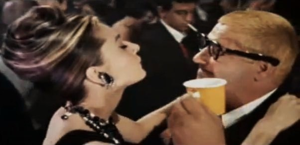 Audrey Hepburn & Stanley Adams in Breakfast at Tiffany's - trailer (cropped screenshot)